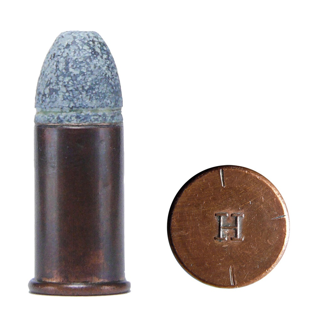 .44" Henry Flat cartridge Origin: USA Manufaturer: Winchester It was adopted by in 1860 and used in the first successful repeating rifle, the Henry.